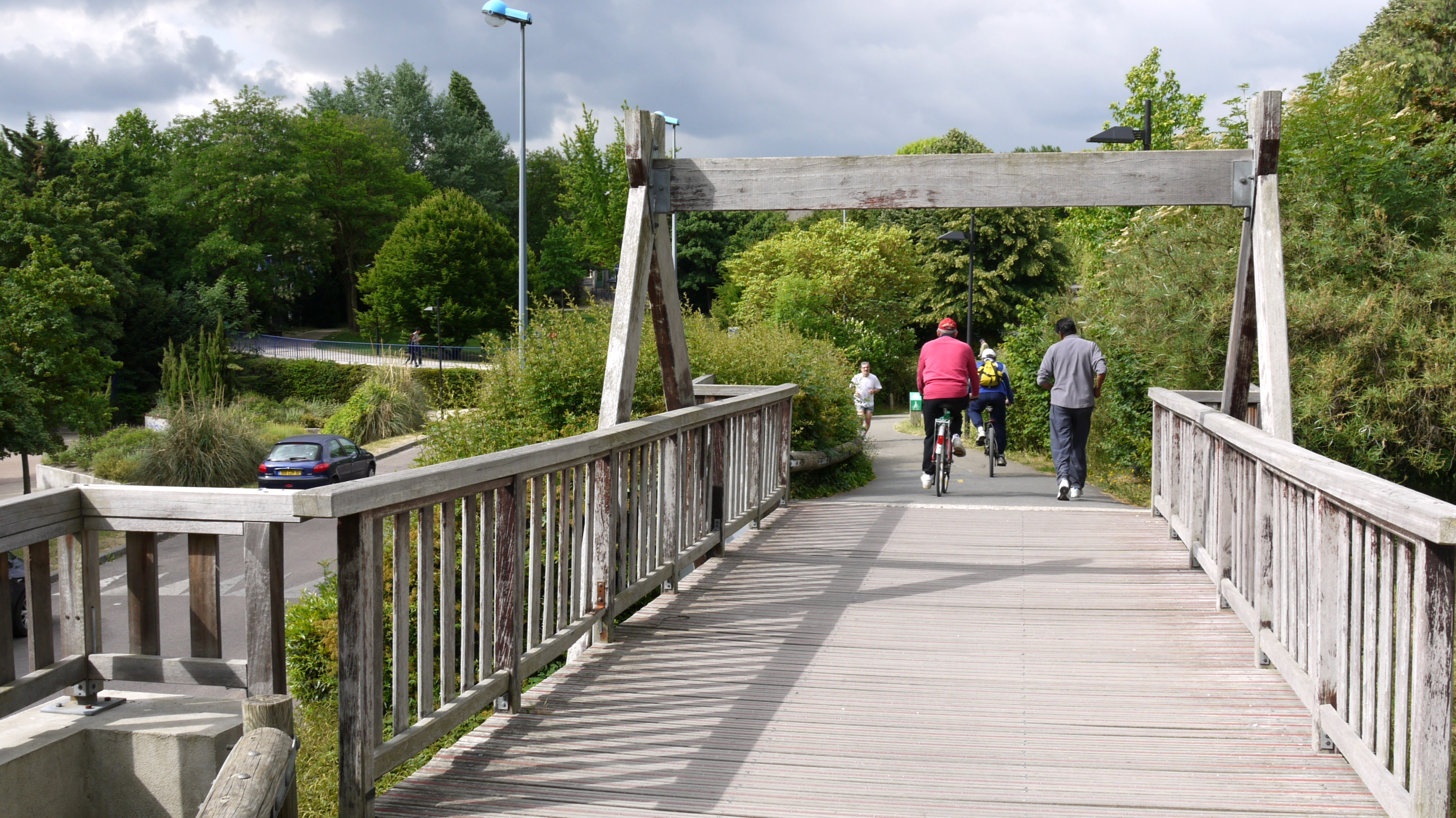 The Coulée verte, a bikeway in the southern suburbs of Paris, at Fontenay aux Roses (France)